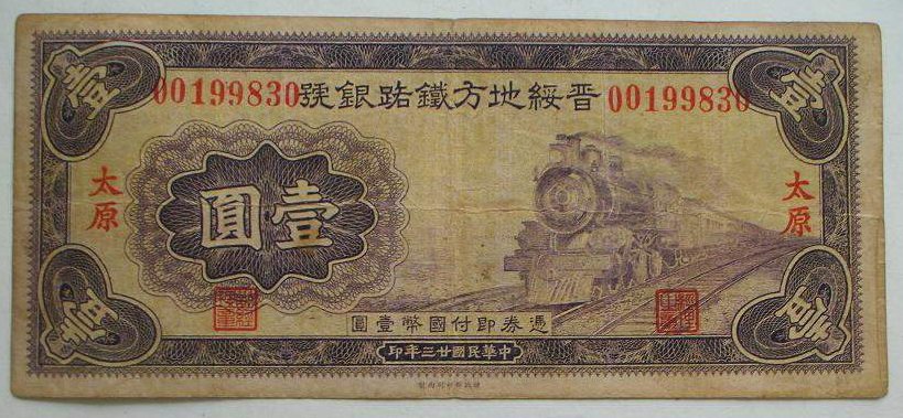 1 Yuan Banknote, Bank of Local Railway of Shanxi and Suiyuan